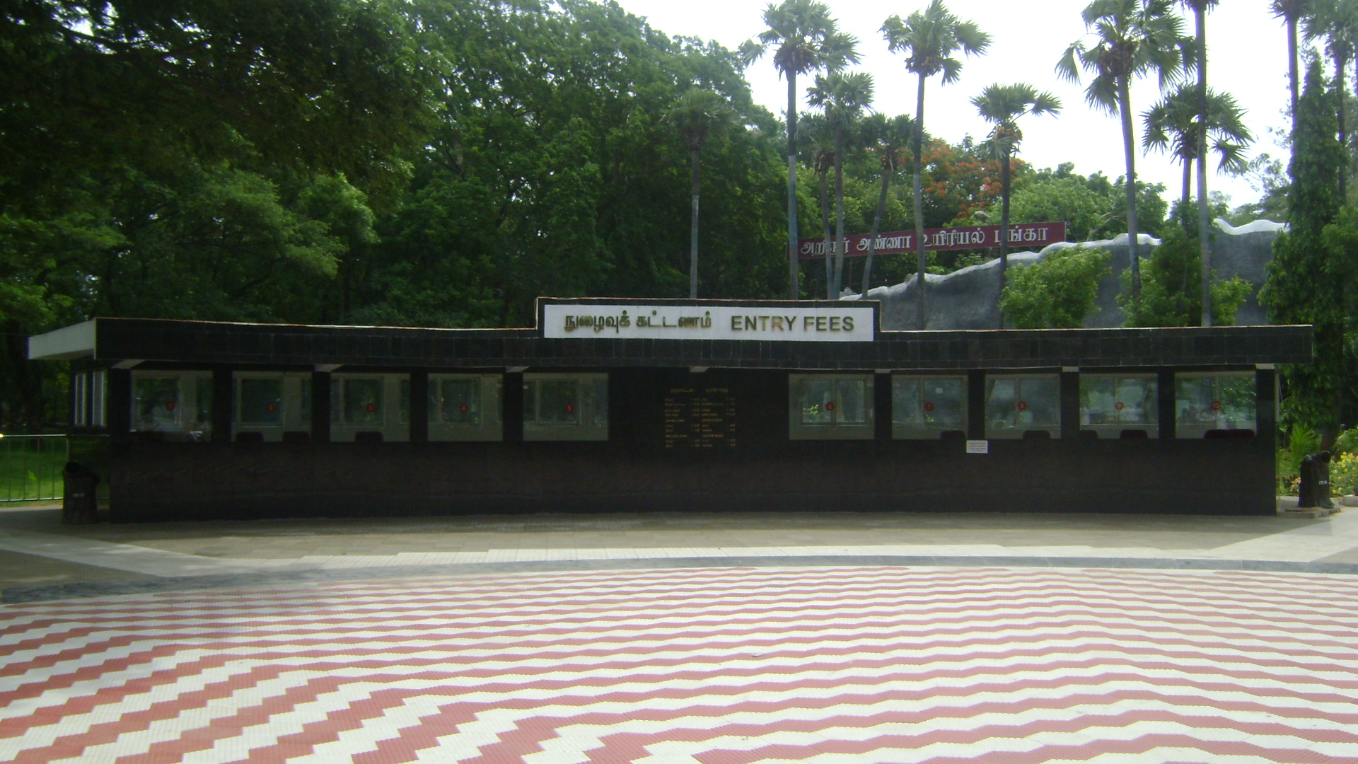 Right ticket counter at Vandalur Zoo, taken on 18 August 2012